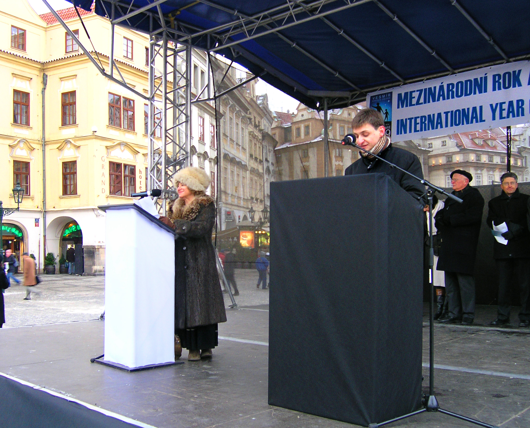 Launch of the International Year of Astronomy in the European Union, Prague, Old Town square, Czech Republic. Catherine Cesarsky, President of the International Astronomical Union, on the left.